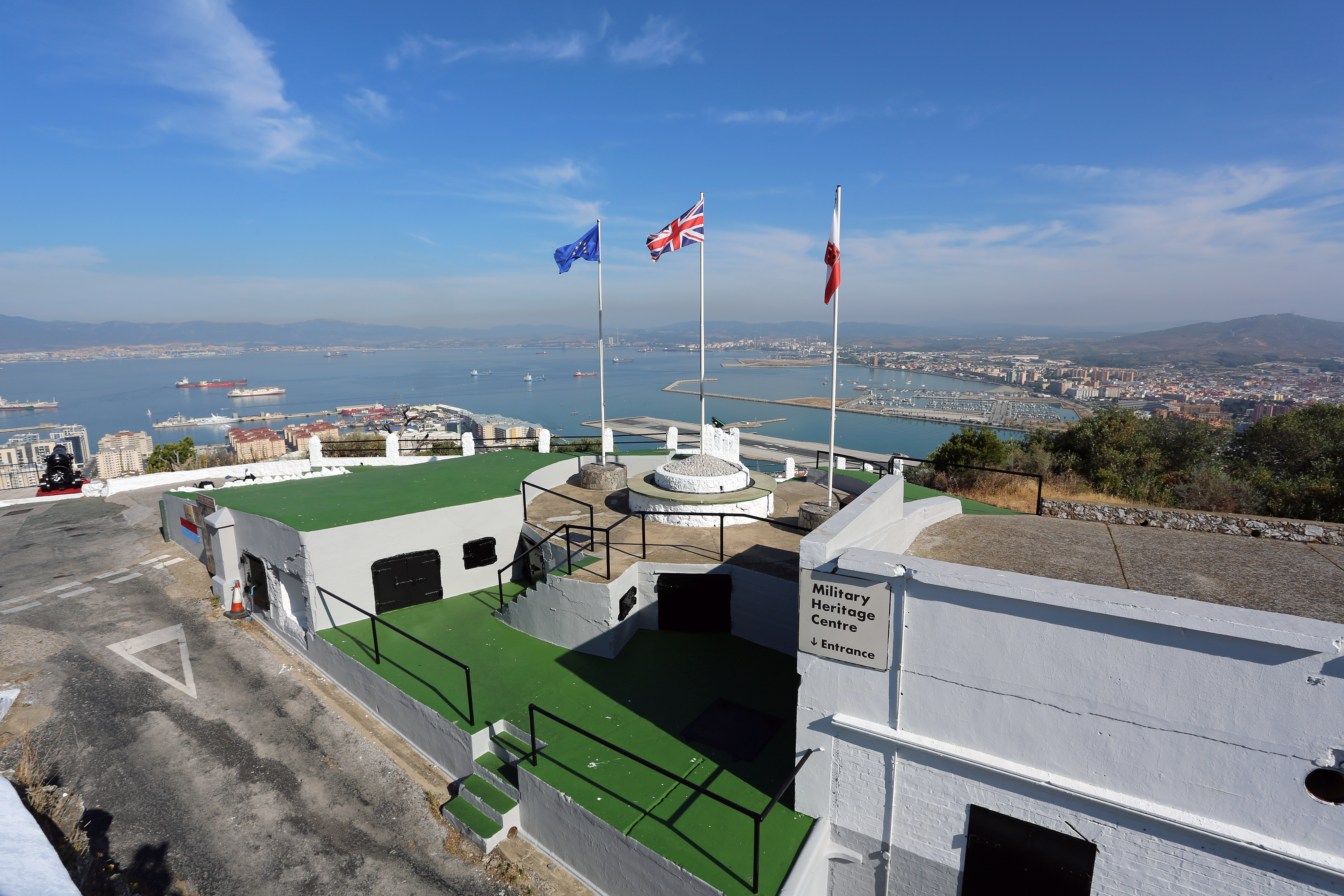 Princess Caroline's Battery was originally built in 1732 and was updated in 1905 when a 6 inch Mark VII gun was mounted above the magazine.